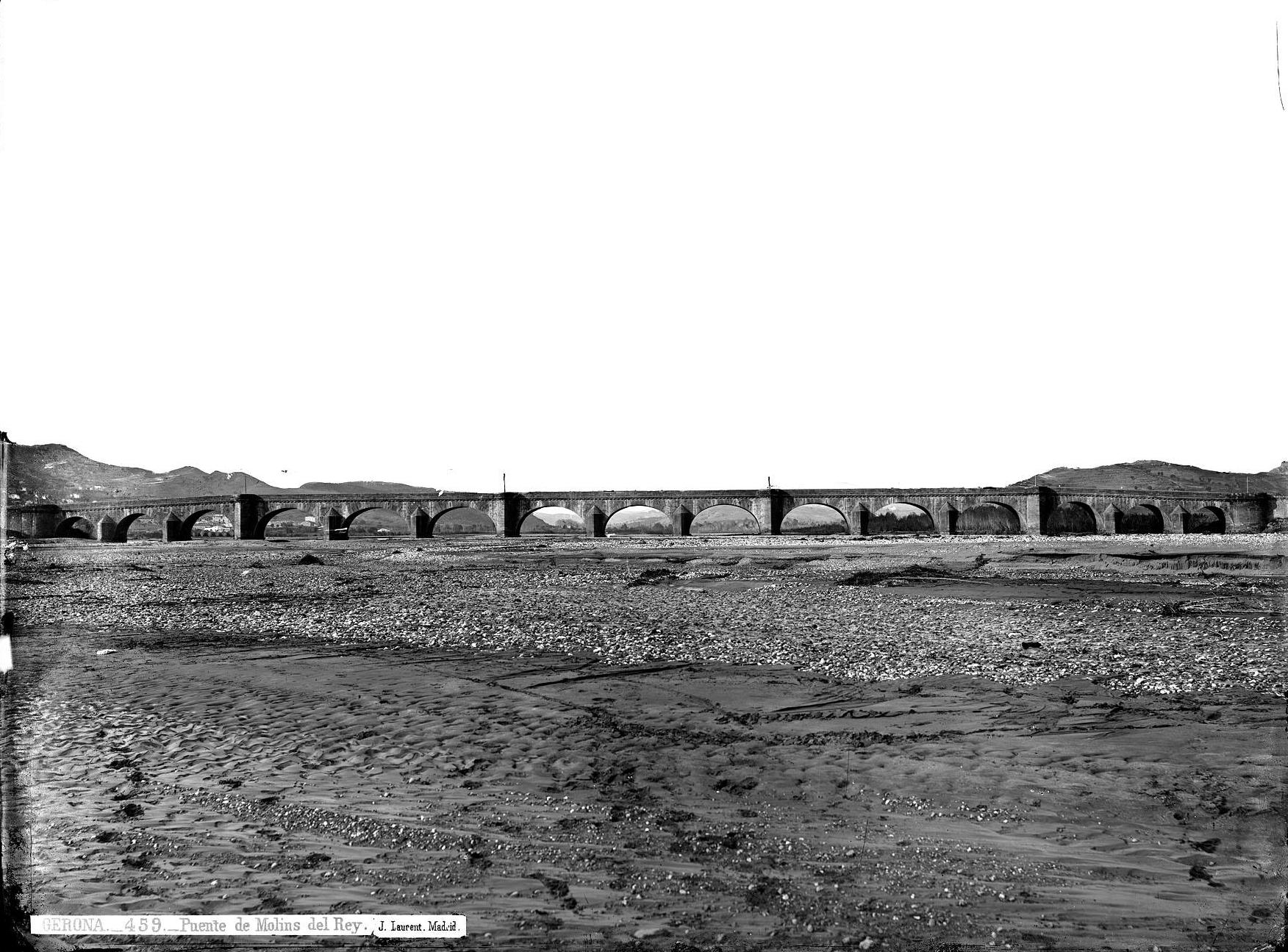 The old bridge of Molins de Rey, photographed circa 1867, by Jose Martinez Sanchez. This photograph was sold by the Laurent house, from the year 1870. Molins de Rey is a town in Catalonia, Spain, belonging to the province of Barcelona. However, J. Laurent mistakenly labeled it as if it were the province of Gerona. But obviously, corresponds to the province of Barcelona. The original glass negative is preserved in Madrid, in the Photo Archive Ruiz Vernacci, IPCE, Ministry of Education, Culture and Sport of Spain.